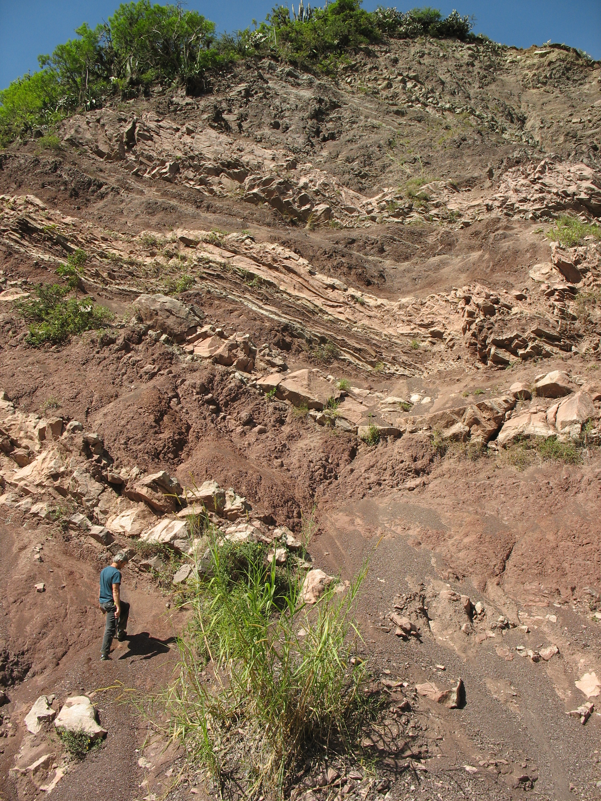 The La Quinta formation comprises a series of red bed sandstones intercalated with volcanic tuffs. These appear to be deposited in rifts. These rifts may be related to the breakup of Pangaea in the Jurassic. The geologist on the picture is for scale.